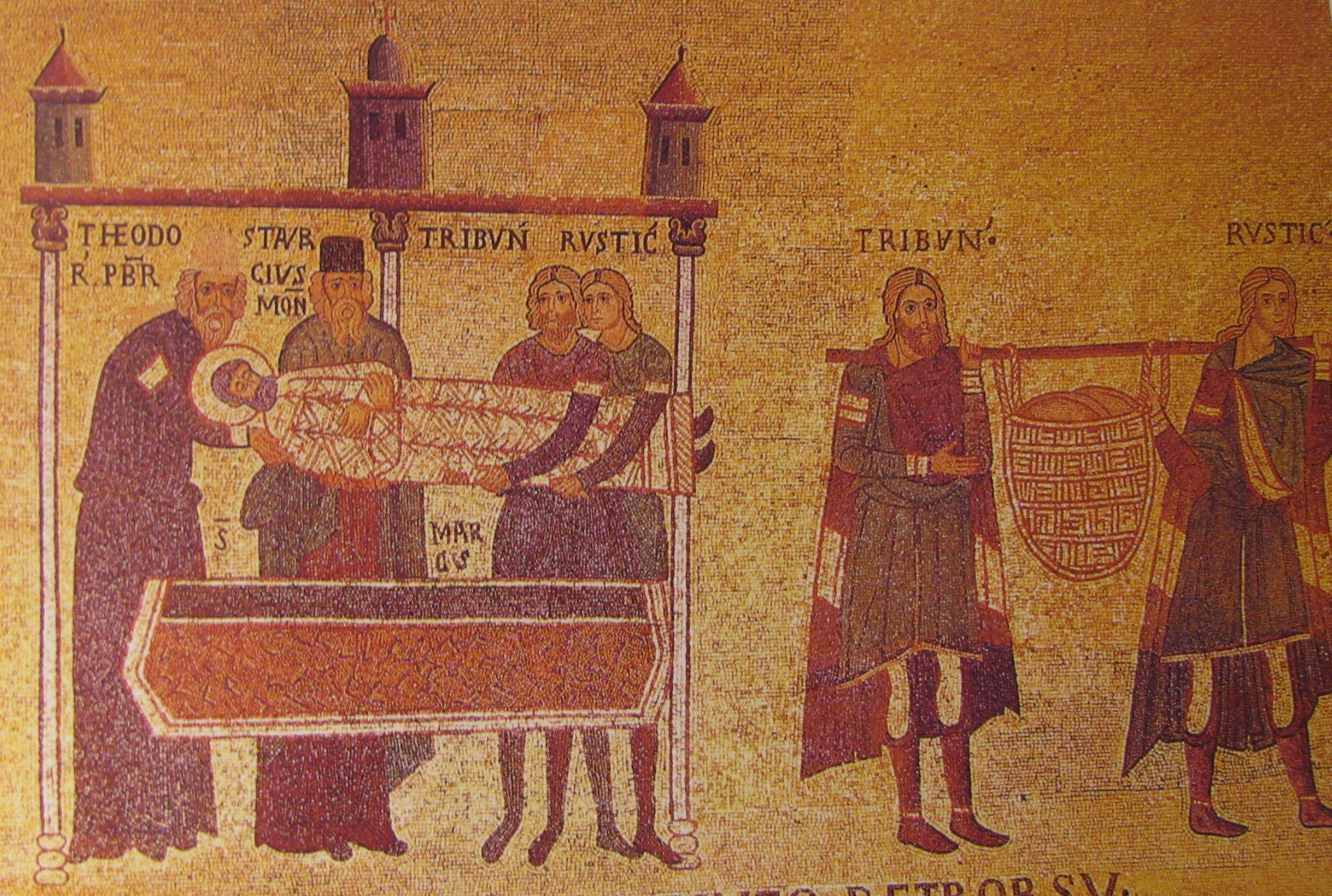 Translation of st. Mark`s relics (mosaic in St Mark's Basilica)